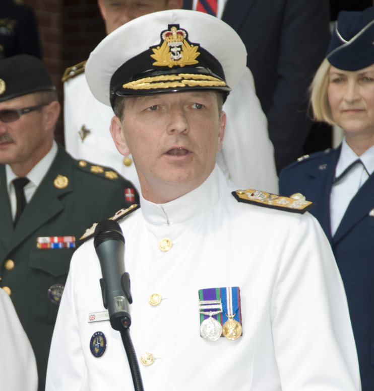 British Royal Navy Vice Adm. Robert G. Cooling addresses guests and staff members during a change of responsibility ceremony July 14, 2009, at Headquarters, Supreme Allied Commander Transformation, Norfolk, Va. Cooling relieved Canadian Armed Forces Lt. Gen. Jan Arp as the Allied Command Transformation chief of staff. (U.S. Air Force photo by U.S. Air Force Master Sgt. Chris Steffen/Released)